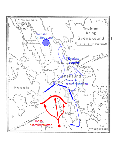 Map of the events related to the second battle of Svensksund in 1790 Date30 September 2012, 20:58:38SourceOwn workAuthorWanderer602 Sources: (in finnish) (1983) Meri maamme turvana, Jyväskylä: K. J. Gummerus Osakeyhtiö, pp. 209-216 ISBN: 951-99487-0-8. and Nordisk familjebok (1918), vol.27, p.1109-1110 [1] (base map from latter